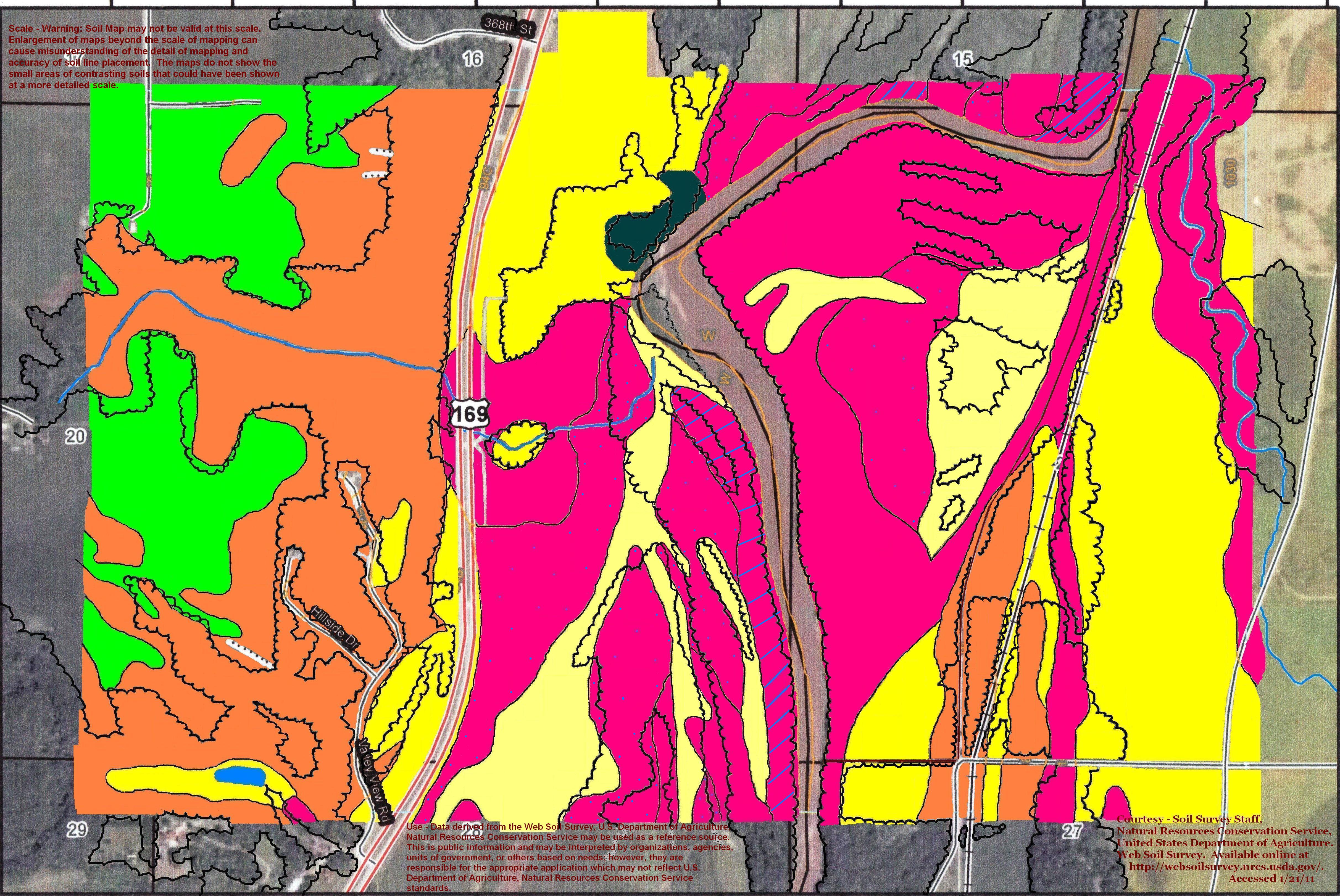 Located across the river in Le Sueur County Minnesota, Chamberlain Woods SNA is a good example of Minnesota river terrace Savannas. West side of Minnesota River in Nicollet County are examples of upland or morainic savannas.